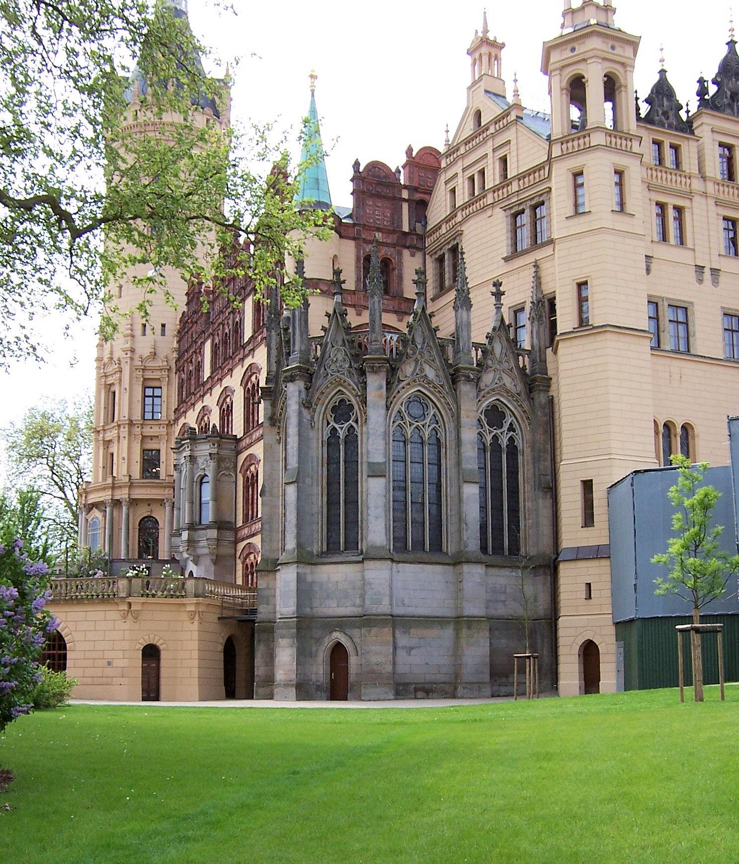 Exterior view of neo-gothic chancel, castle chapel, Schwerin castle